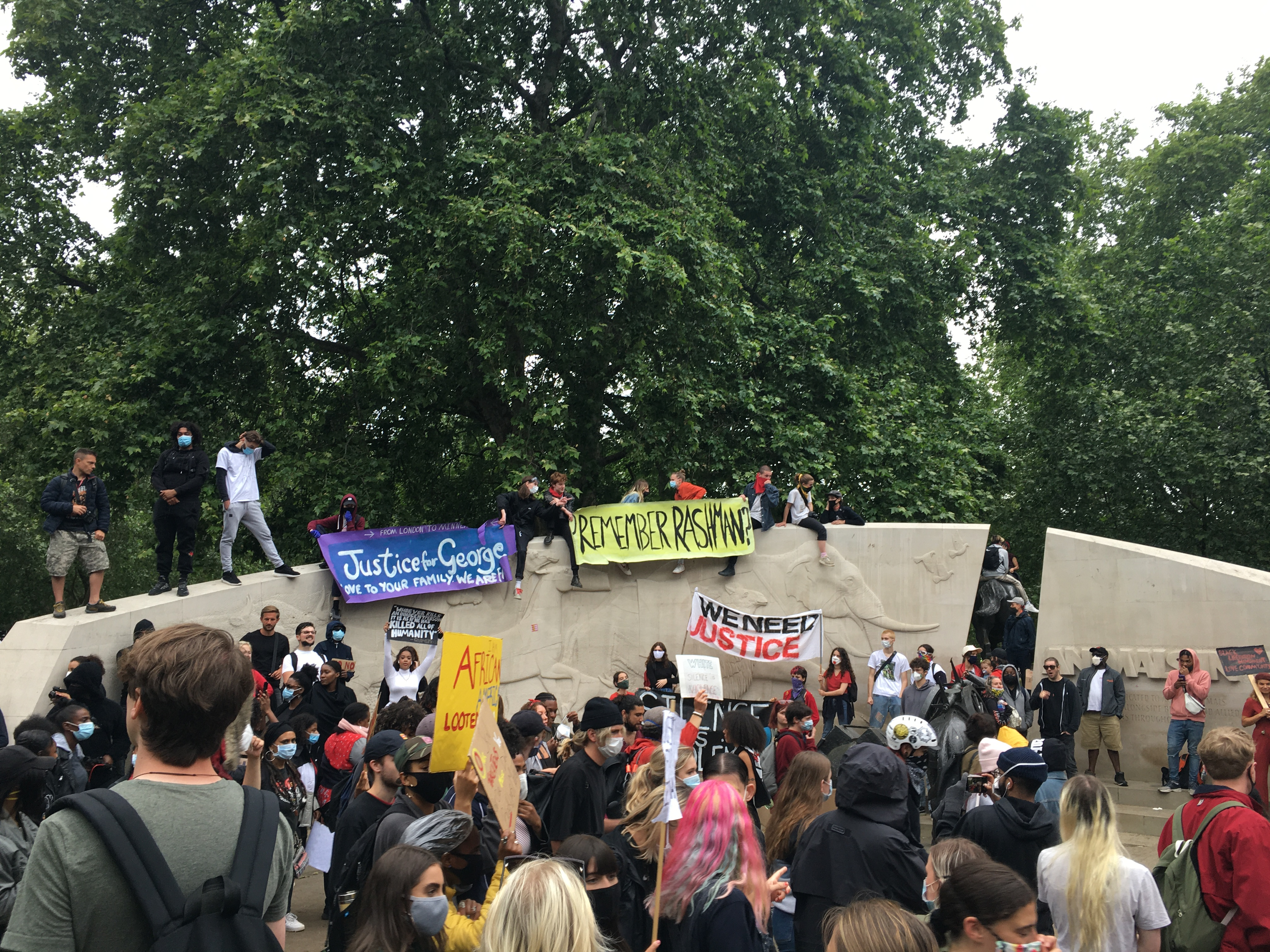 The London Black Lives Matter peaceful protest starting in Hyde Park on 3.6.20, in support of the USA's protests for BLM, sparked by the death of George Floyd, and to fight for the eradication of racism in UK police and society.